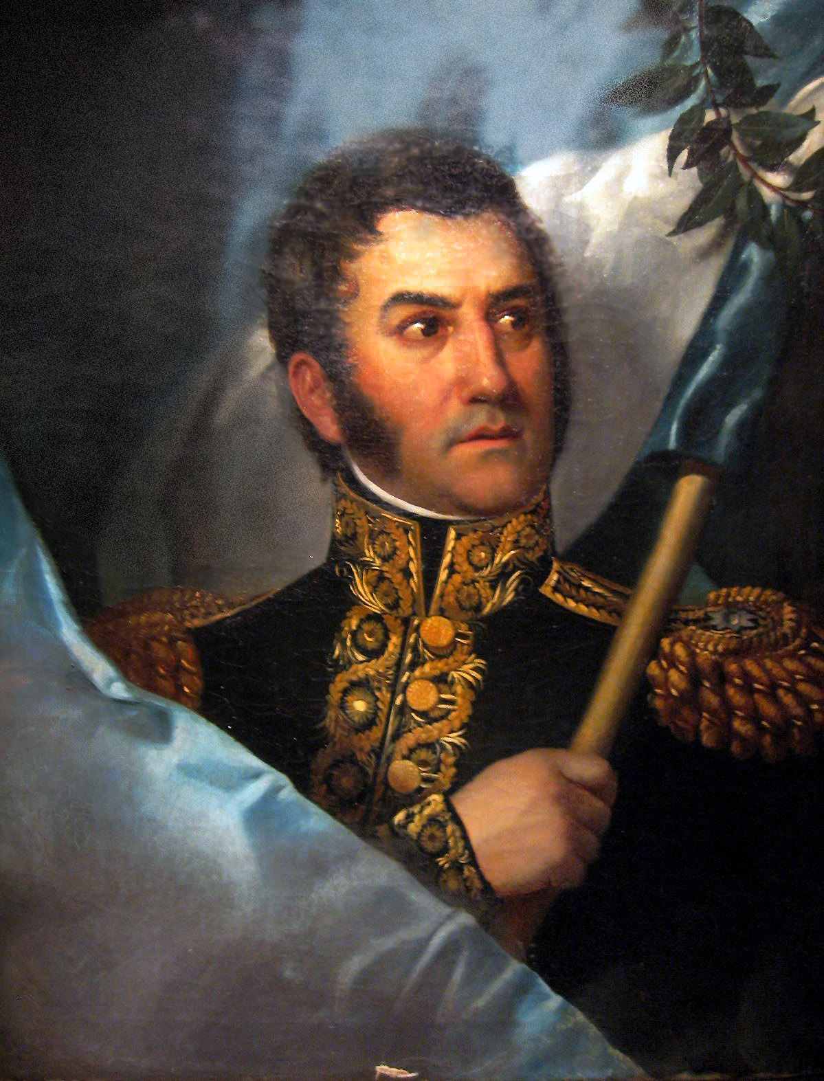 Most canonical portrait of José de San Martín.